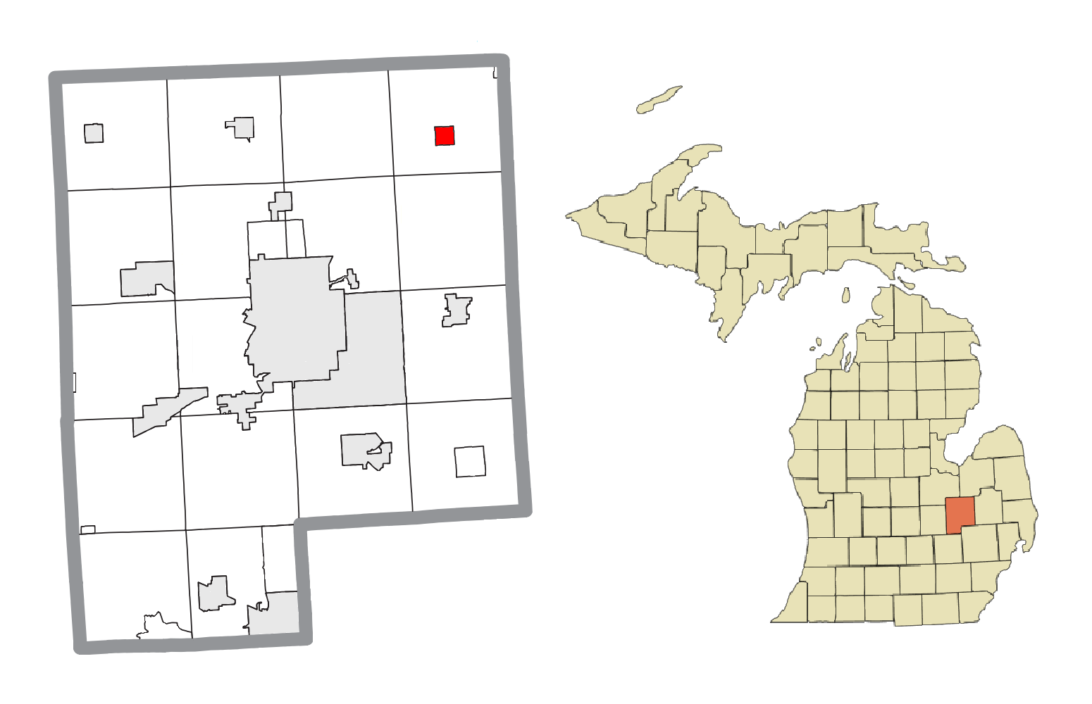 Otisville, MI